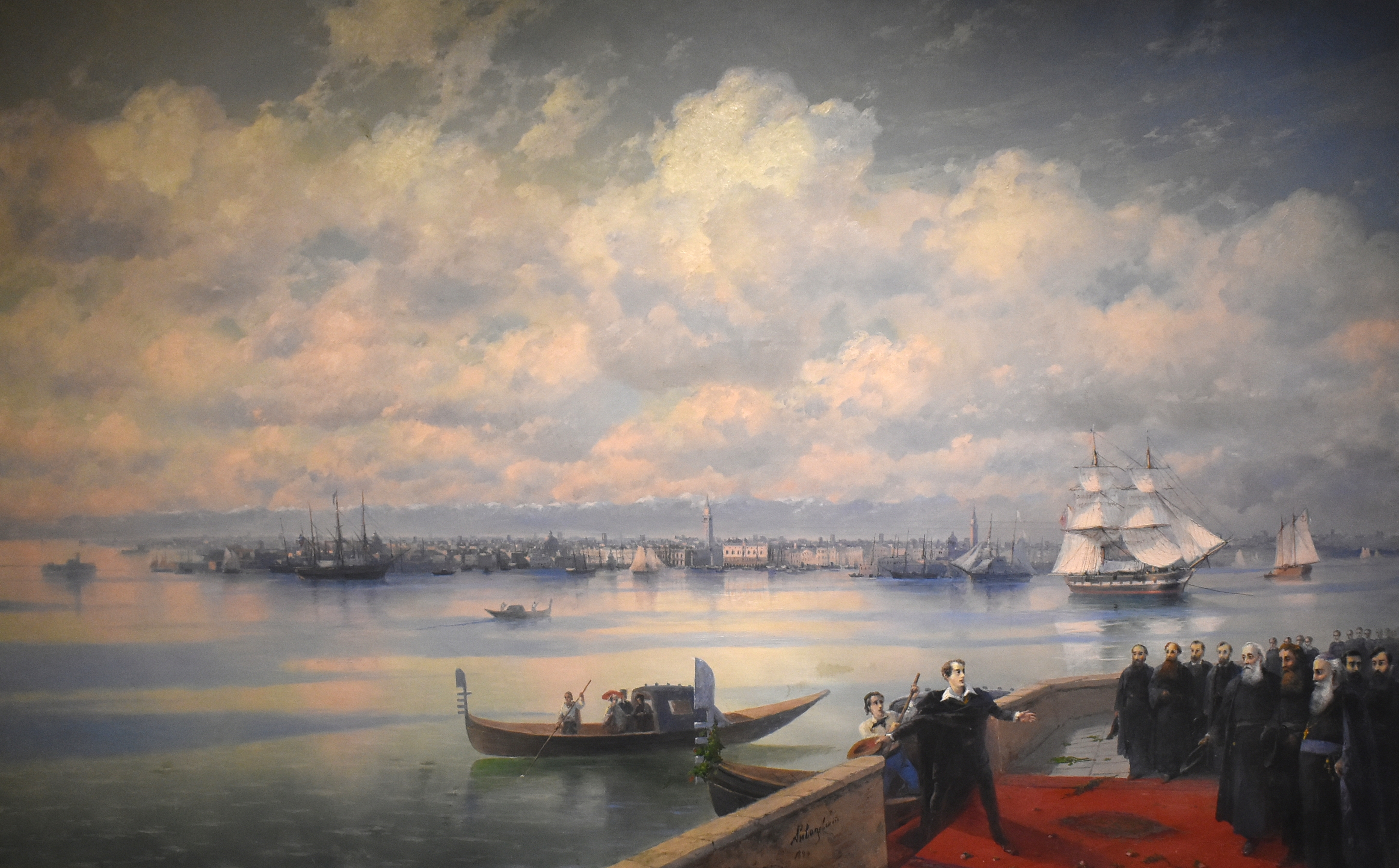 Byron's visit to the Mekhitarists on San Lazzaro as pictured by Ivan Aivazovsky, 1899 National Gallery of Armenia canvas, oil paint Dimensions: 133 x 218 cm